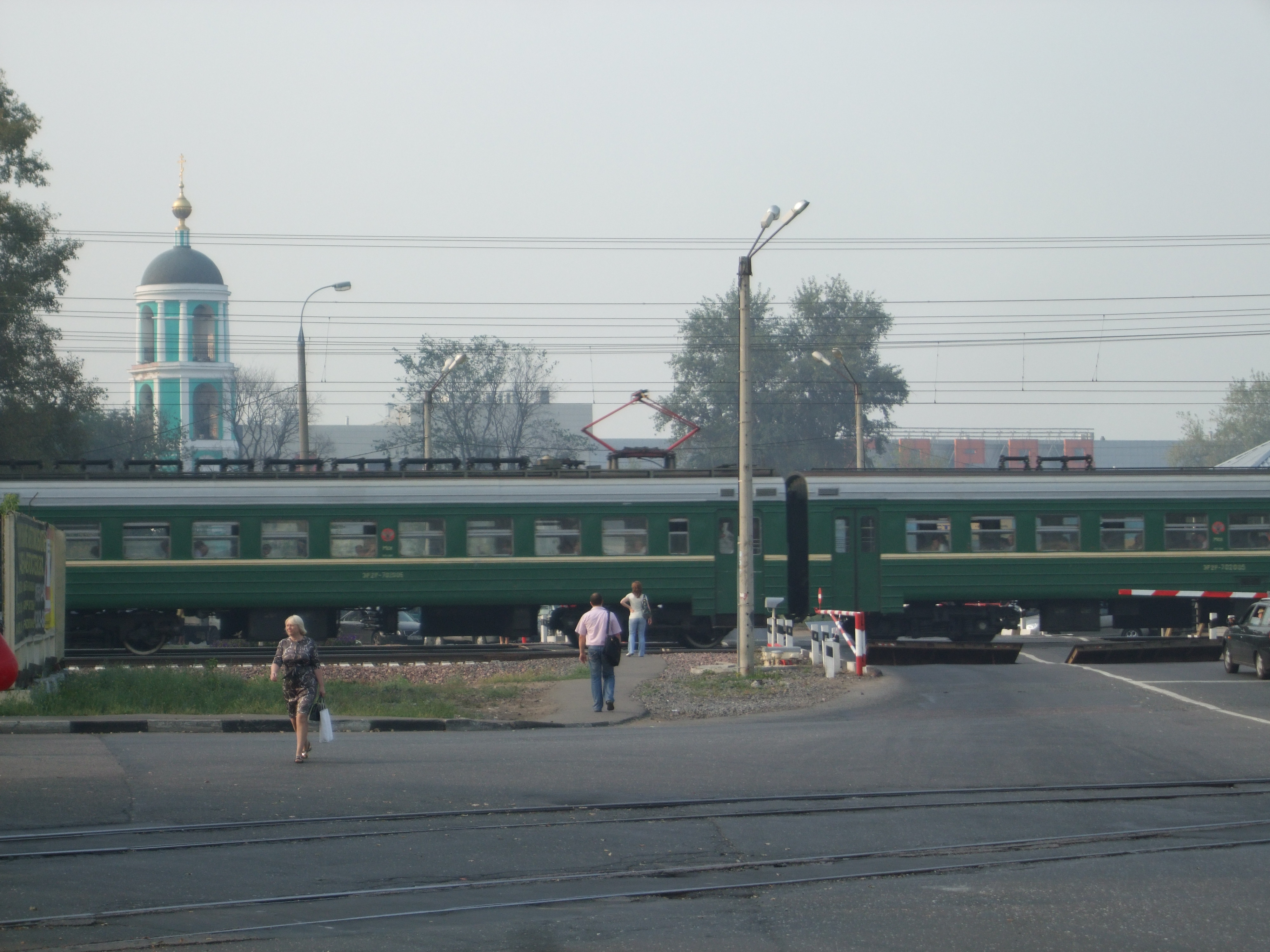 The level crossing of Karacharovo in Moscow city